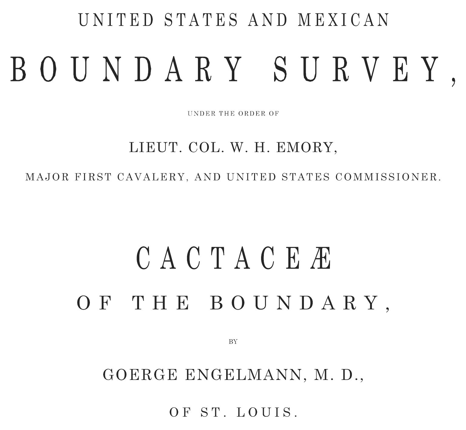 Titlepage of George Engelmann's Cactaceae of the Boundary.